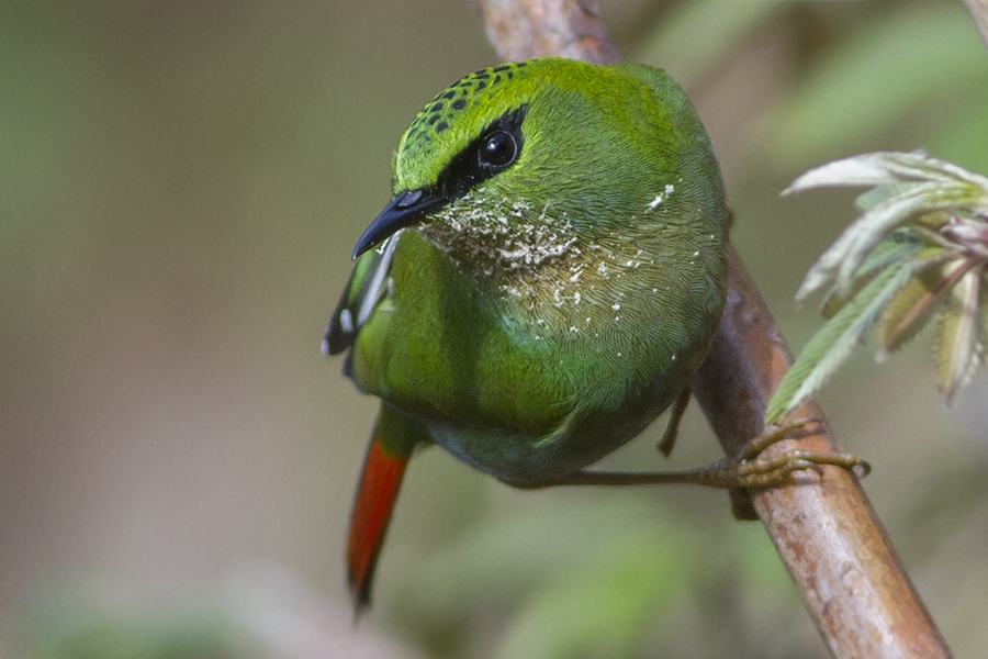 Fire-tailed Myzornis Myzornis pyrrhoura photographed from Old Silk Route, Sikkim, India on 17 April 2015 during the birding tour of GoingWild.